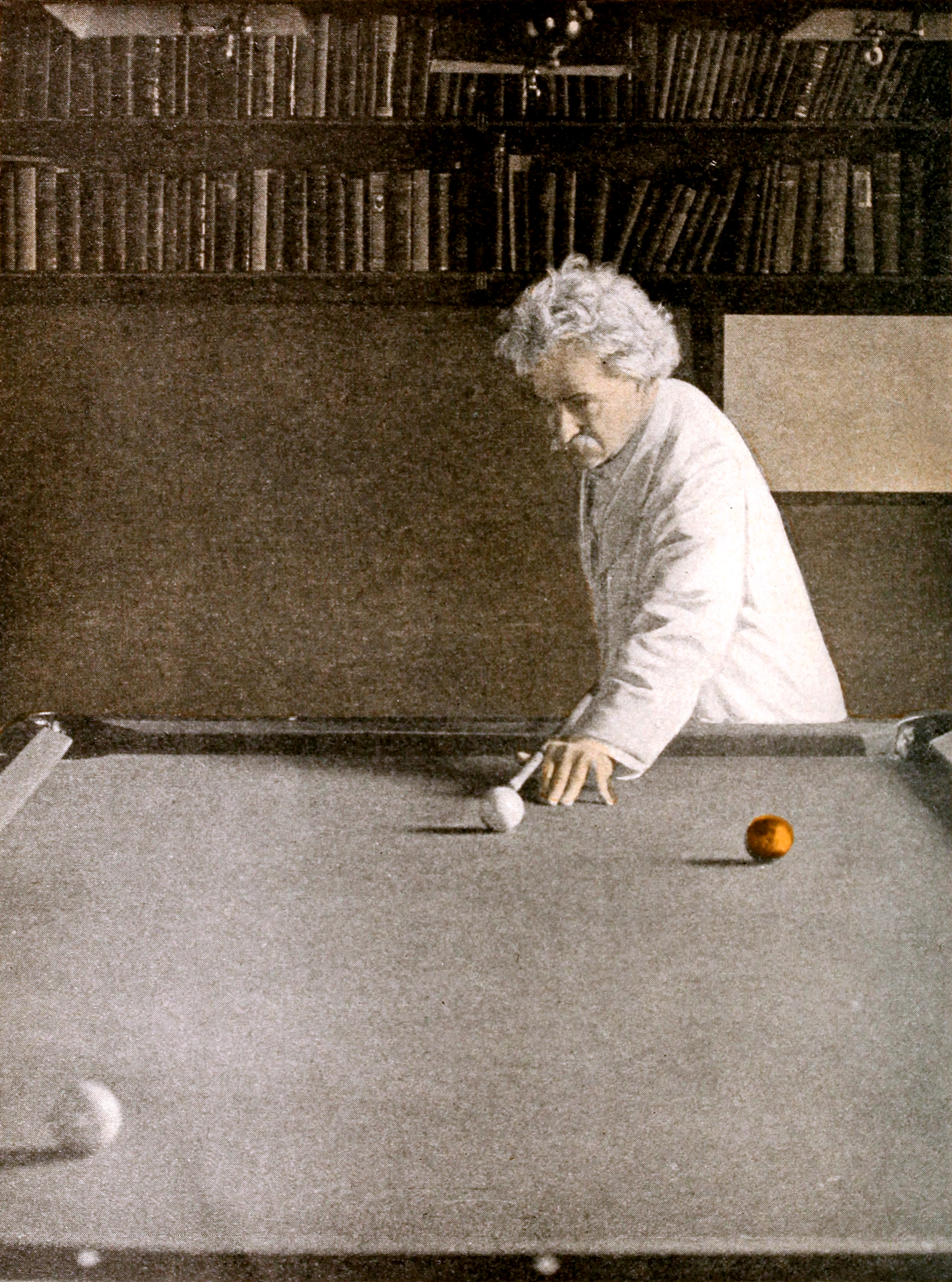 Tinted photograph of Mark Twain playing billiards, on page 68 of the July 1908 Physical Culture magazine.